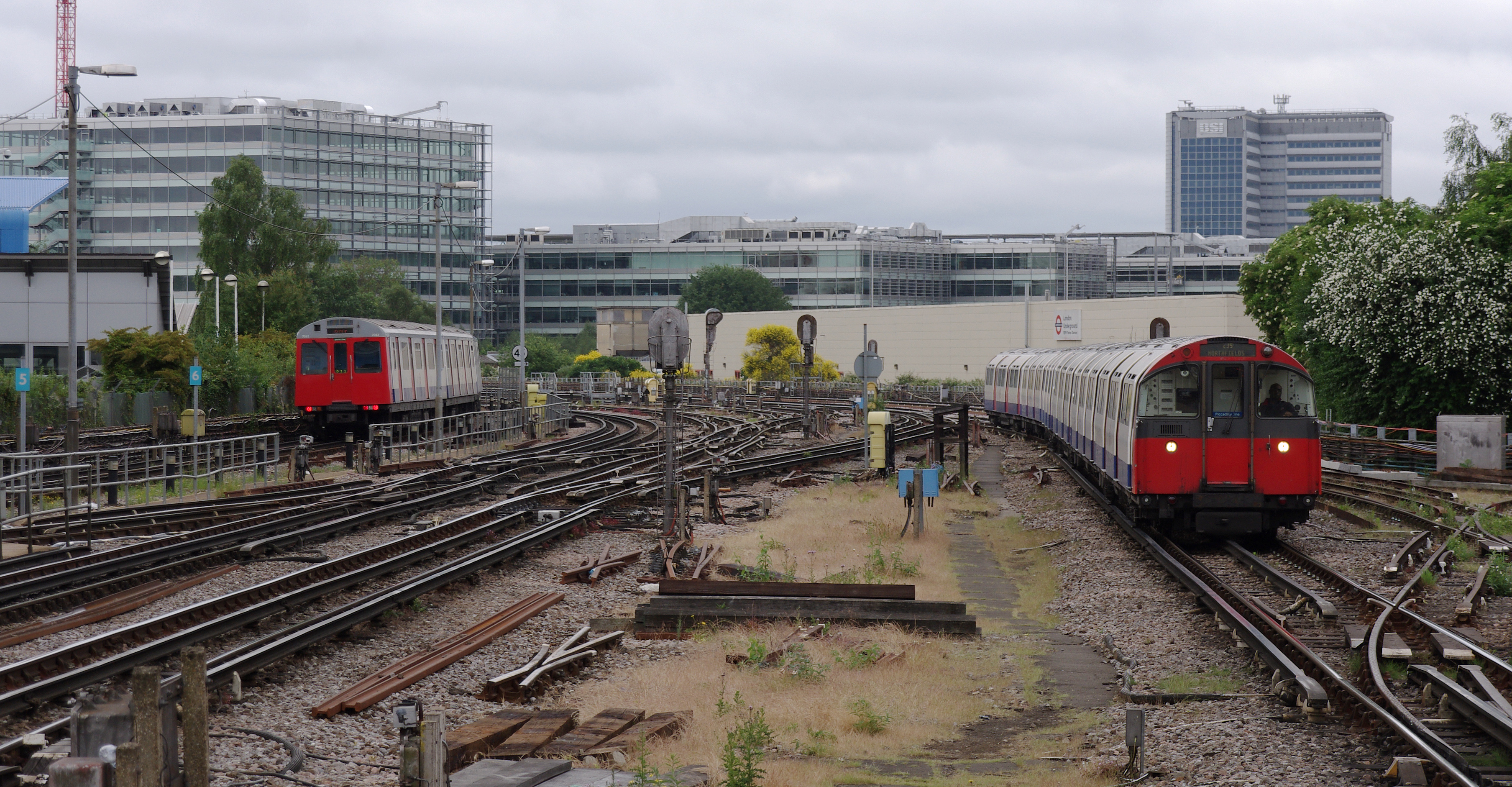 A westbound Piccadilly Line train, formed of 1973 stock, approaches at Acton Town tube station. On the left is an eastbound District Line D-Stock train.